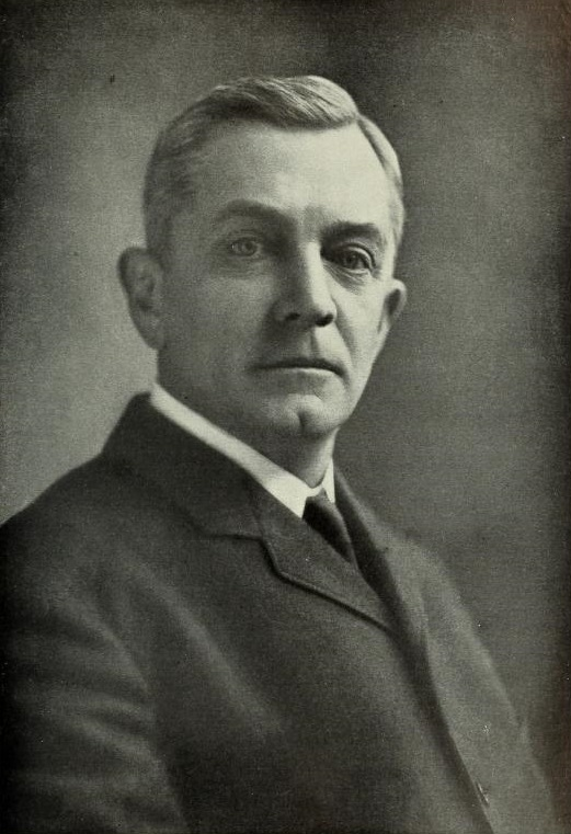 Portrait of James Huff Stout